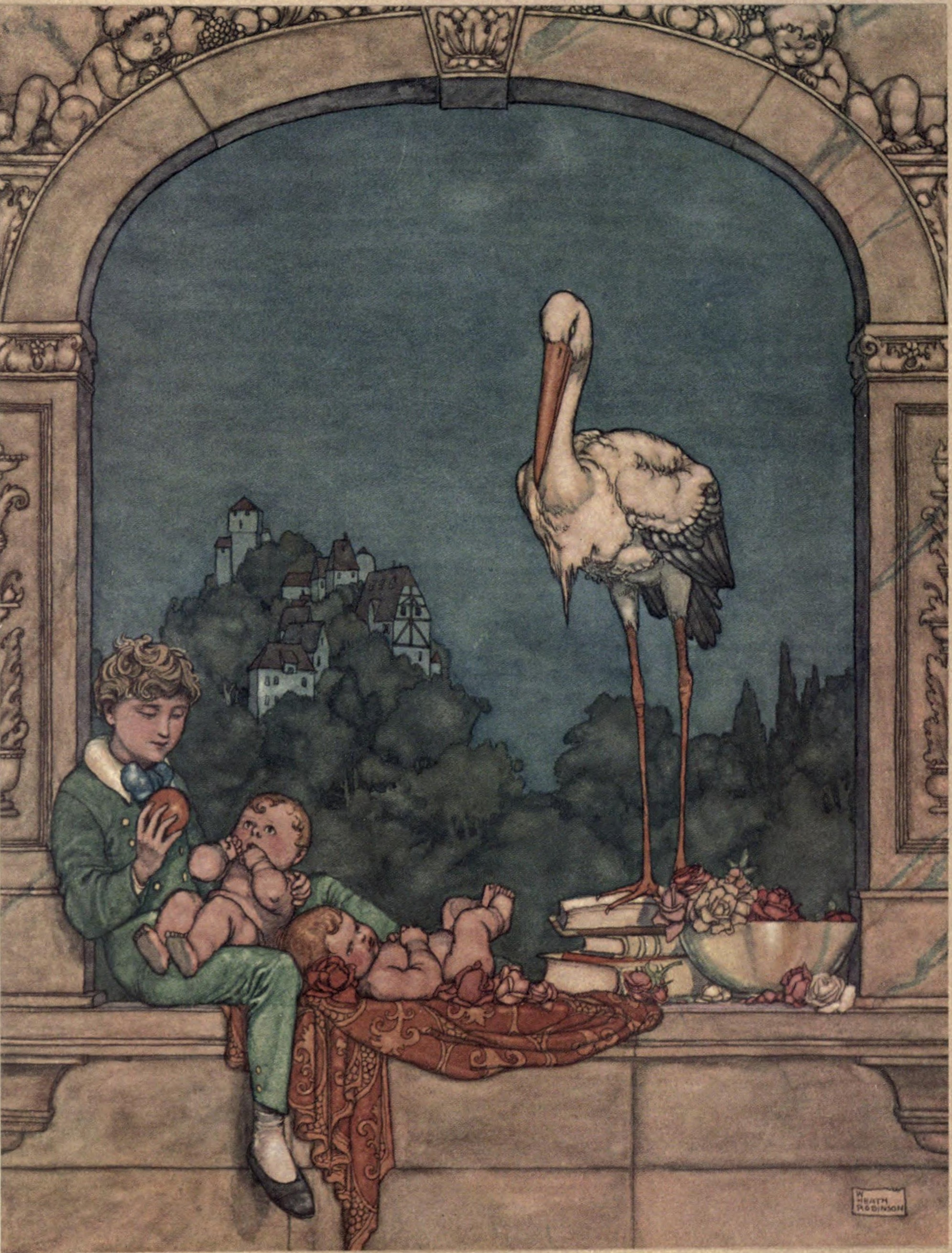 Colour plate in Hans Andersen's fairy tales (1913) London: Constable.